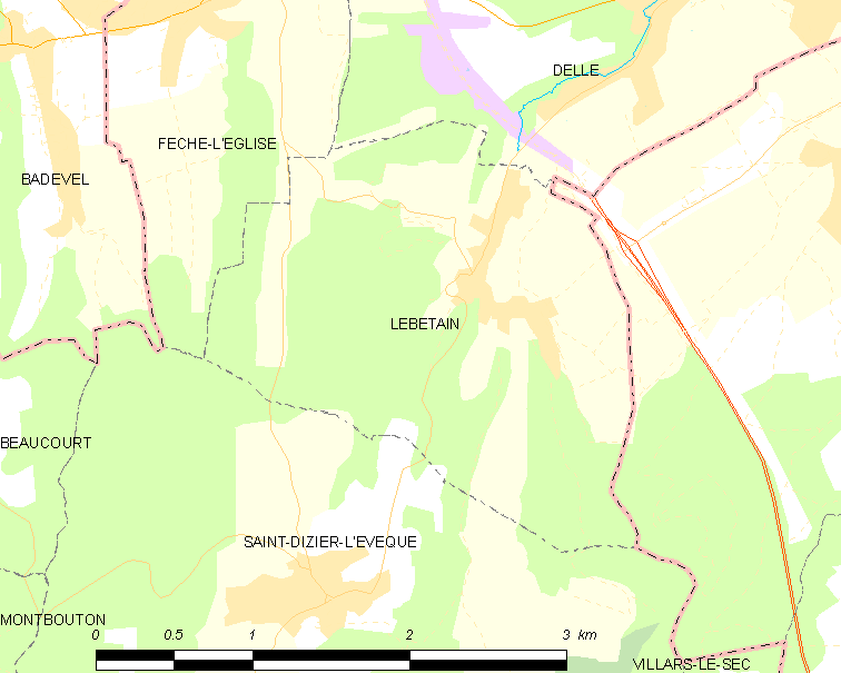 Map of French municipality Lebetain